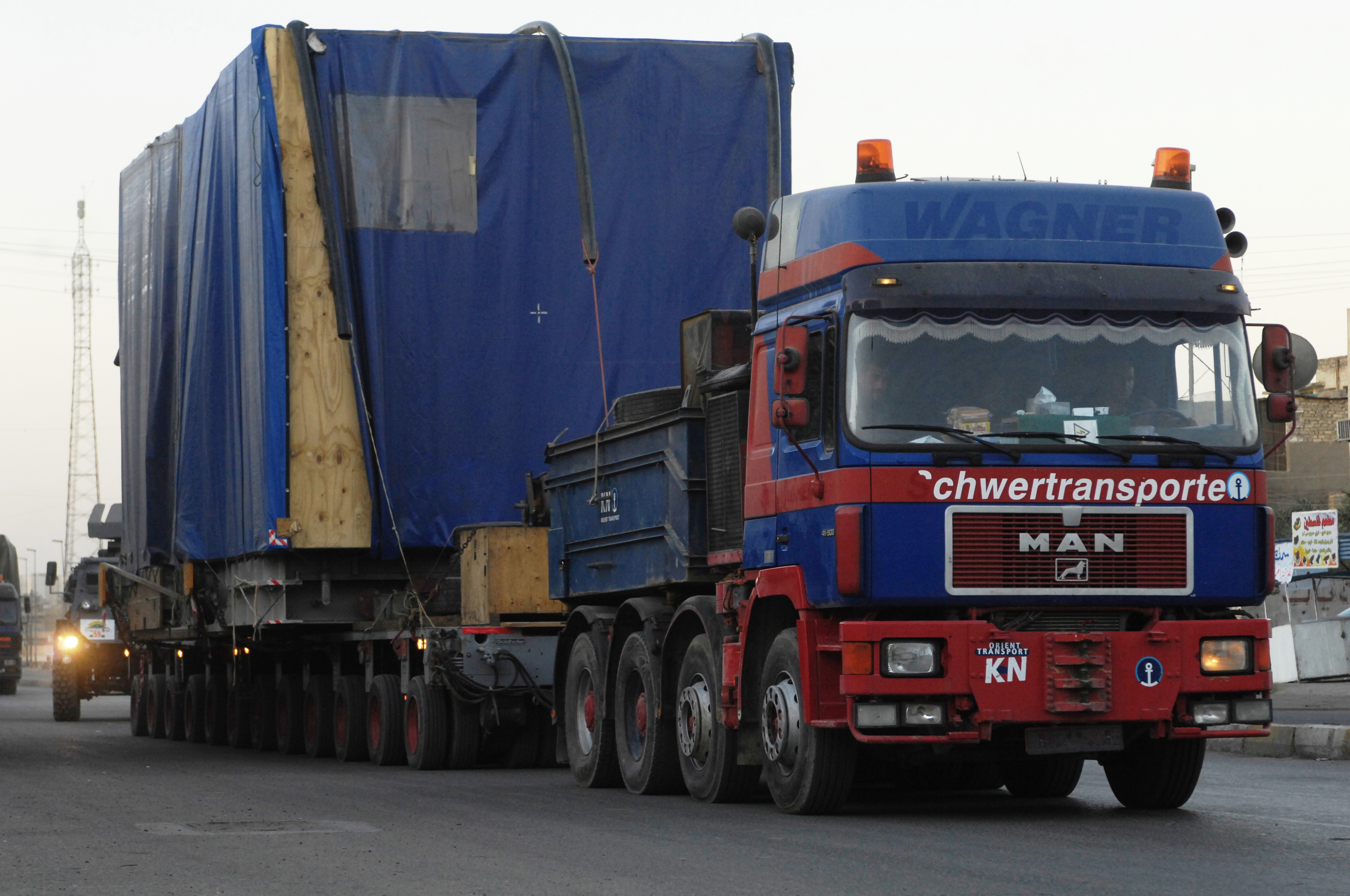 A civilian MAN 41.502 truck moves a generator from the international zone.